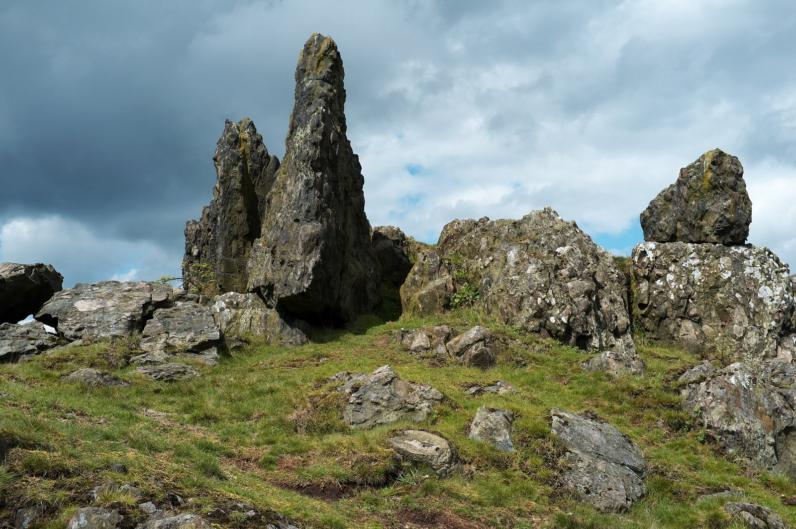 An interesting outcrop of Precambrian volcanic rock at the Charnwood Lodge SSSI near Whitwick, Leicestershire